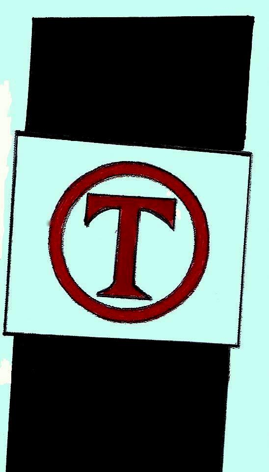 Funnel logo of former ship company Teltower Kreisschiffahrt in Berlin, Germany